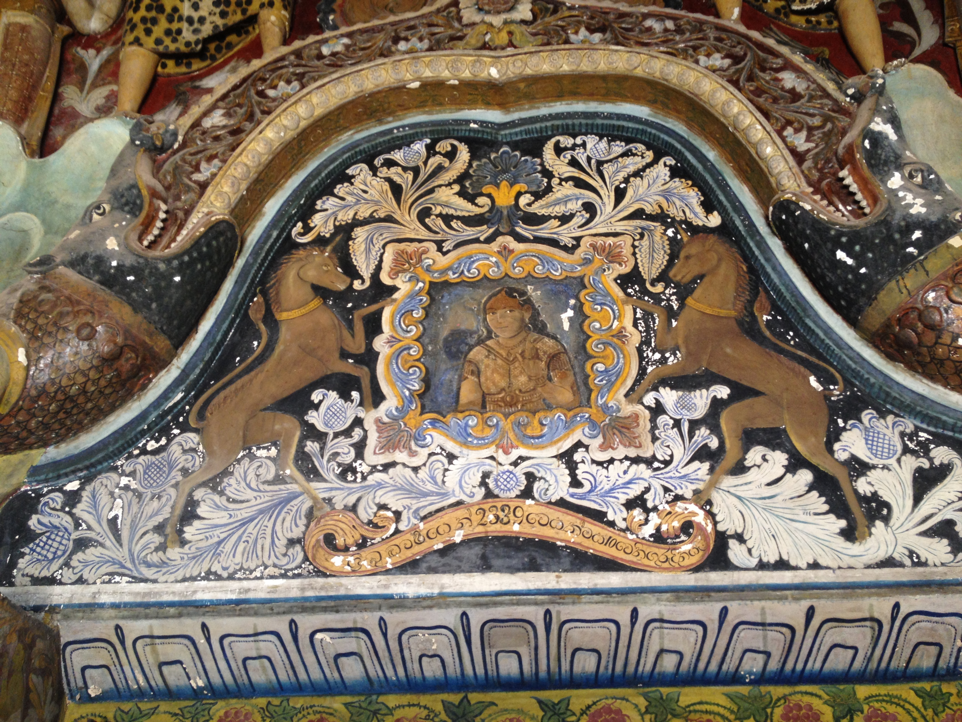 A portrait of queen Victoria at the Subodharama (Karagampitiya) temple, Sri Lanka.